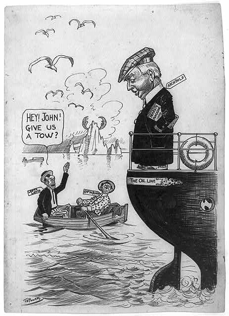 "Lefty Louis" and "Gyp the Blood," rowing a small boat, call to Standard Oil executive John D. Archbold, standing against the rail of a ship called "The Oil Line," holding Hearst's Magazine. An iceberg with antlers is visible in the distance. The cartoon contrasts the state of the wealthy and the poor under suspicion for illegal acts. Archbold had written to Theodore Roosevelt on behalf of Standard Oil, regarding contributions for the presidential campaign of 1904, in return for favors. Although no evidence of favoritism existed, Hearst's Magazine published Archbold's letters to Roosevelt just prior to the 1912 presidential election in which Roosevelt ran as the "Bull Moose" or Progressive Party candidate, hence the antler on the iceberg.